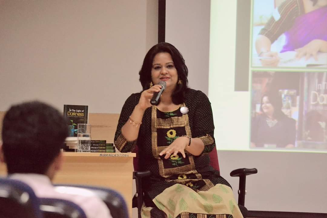 Uploading image of writer Radhika maira tabrez for a wiki page